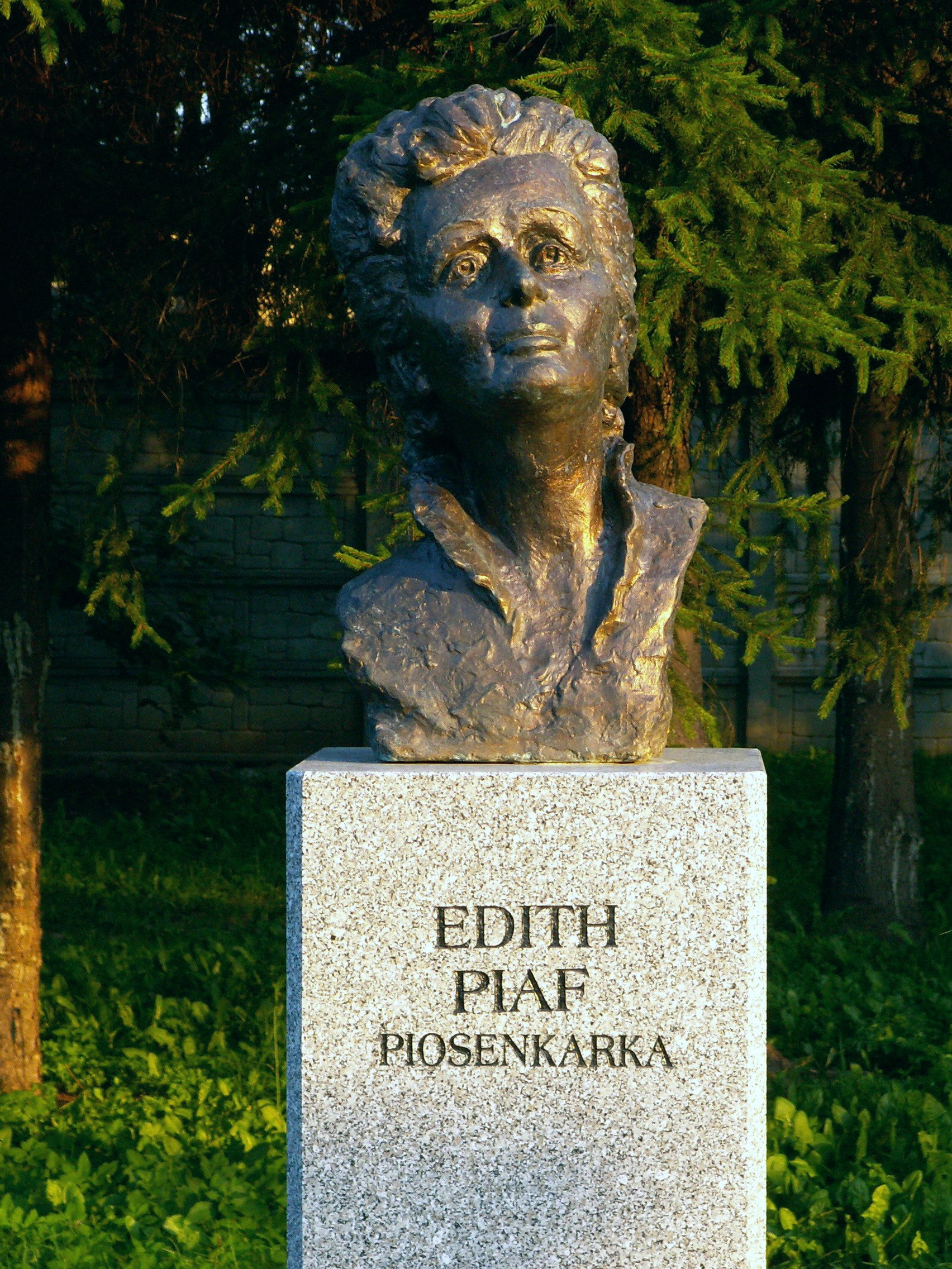 Bust of Edith Piaf in Celebrity Alley in Kielce (Poland)